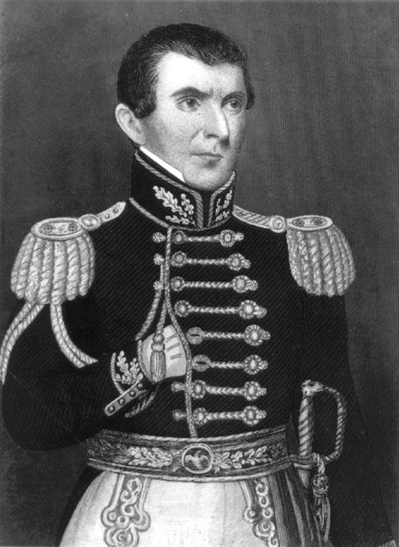 John C. Bennett, an American physician and a ranking and influential—but short-lived—leader of the Latter Day Saint movement, who acted as second in command to Joseph Smith, Jr. for a brief period in the early 1840s.